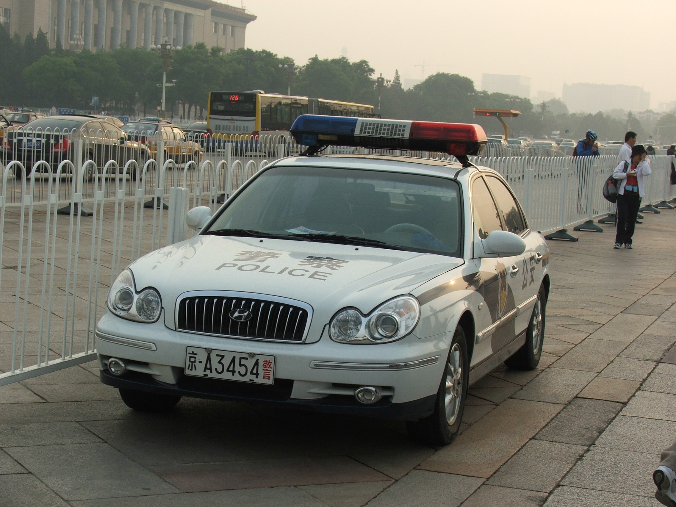 Hyundai of Chinese police in the streets of Beijing.